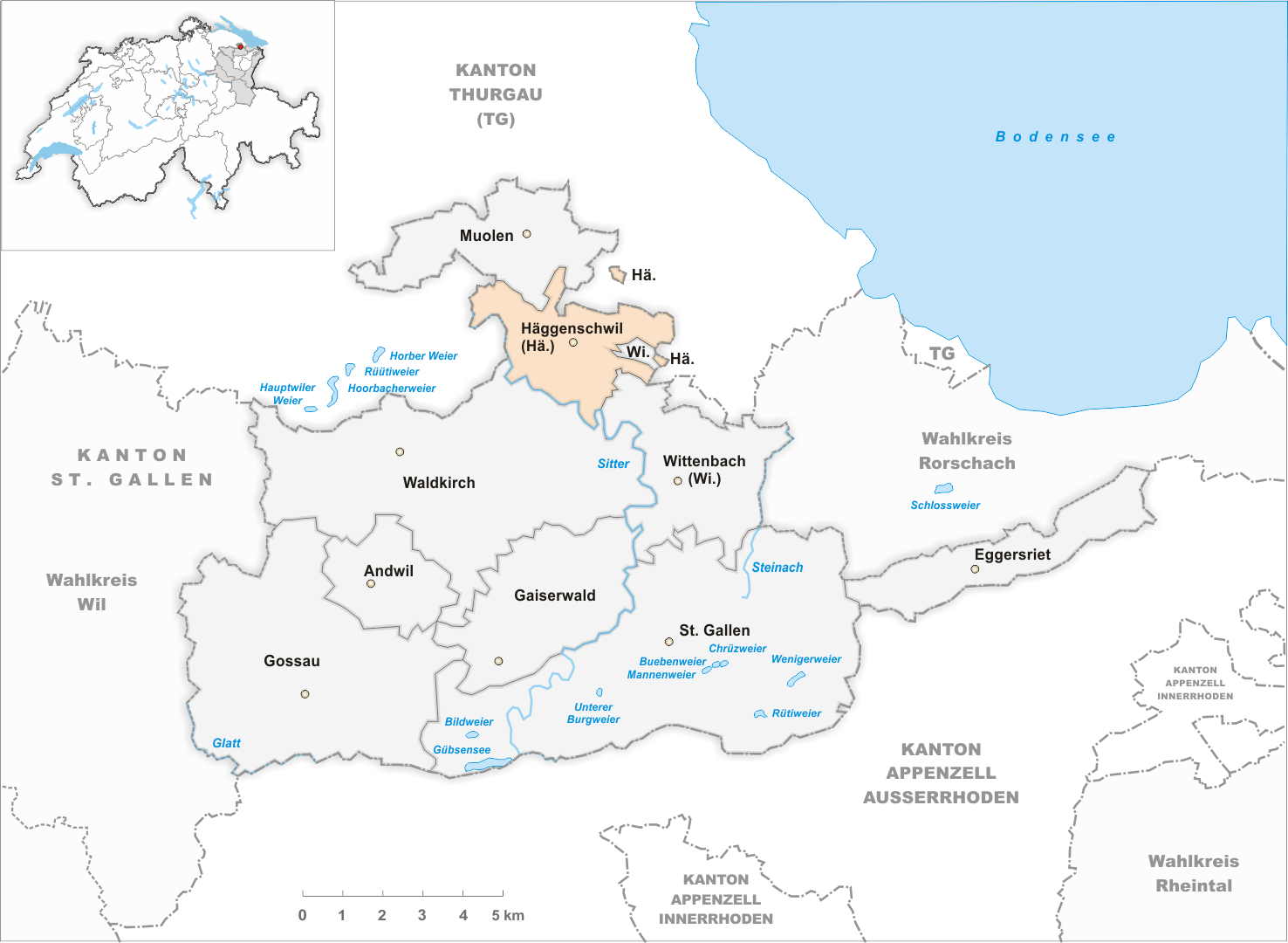 Municipality Häggenschwil